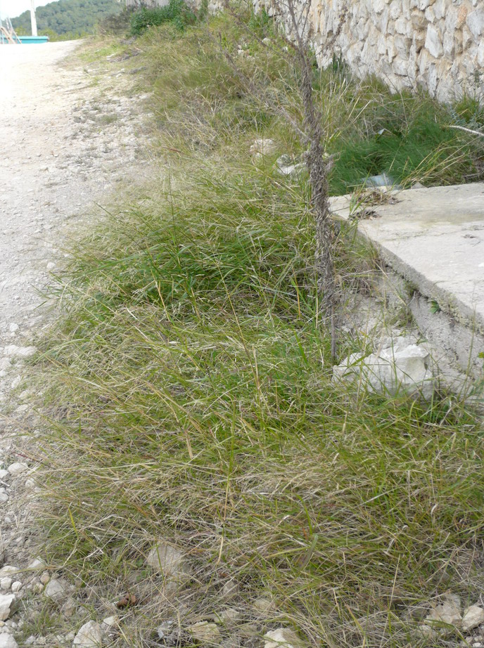 Oryzopsis miliacea or Piptatherum miliaceum. Les Palmeres, Canyelles, Garraf, Catalunya. January 28th 2007